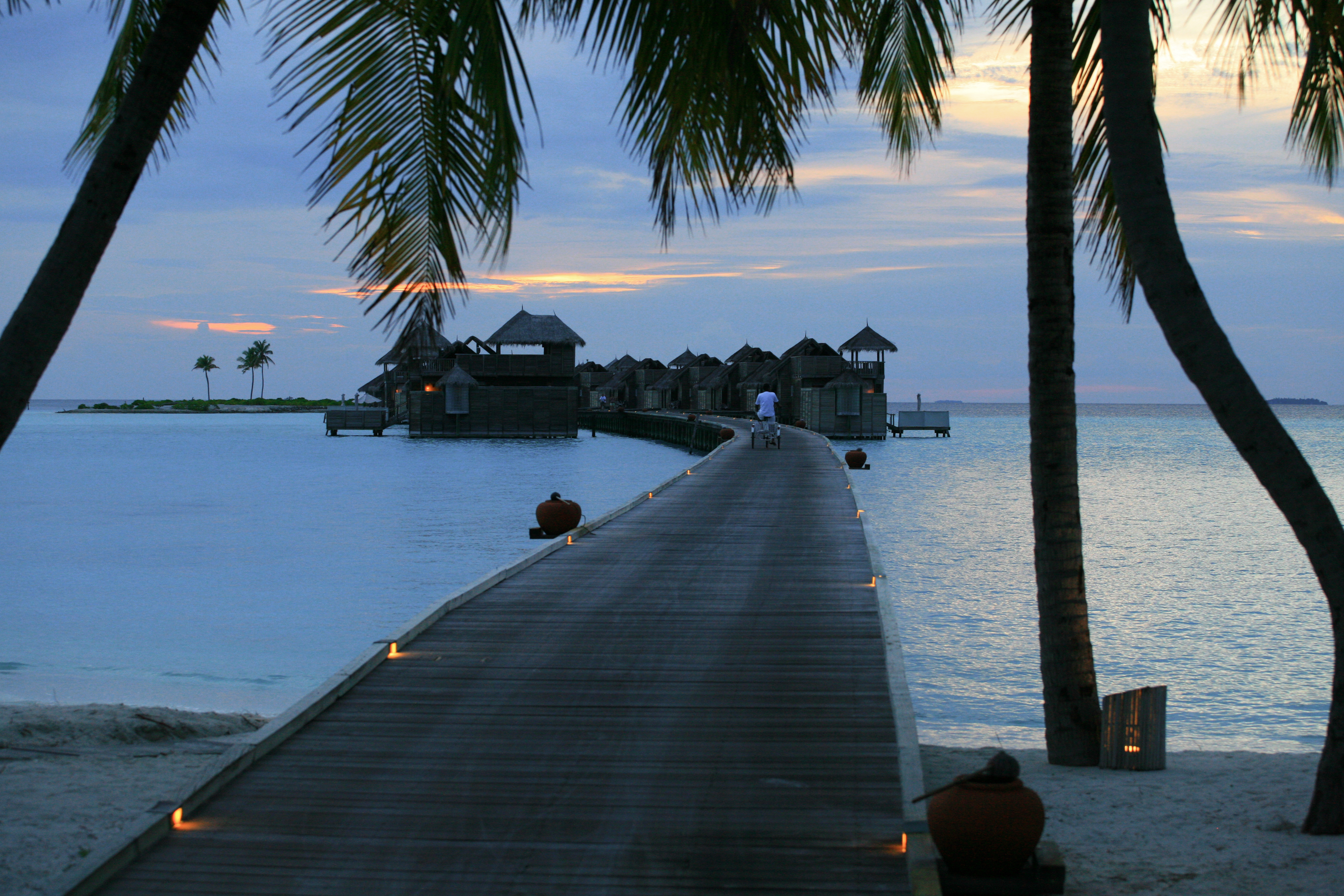 Soneva Gilly, Maldives